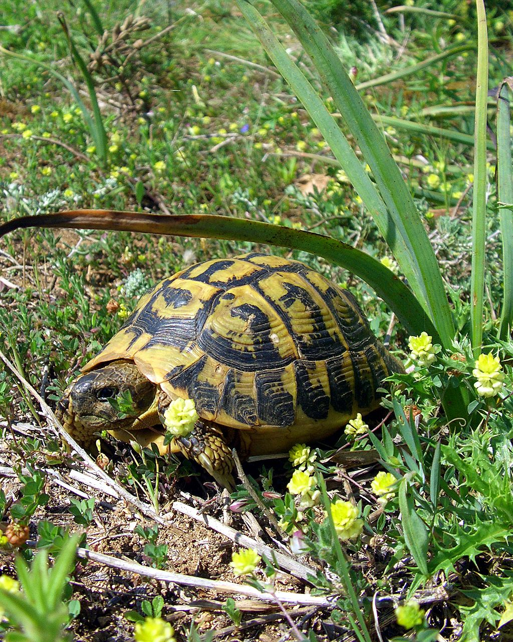 Testudo hermanni